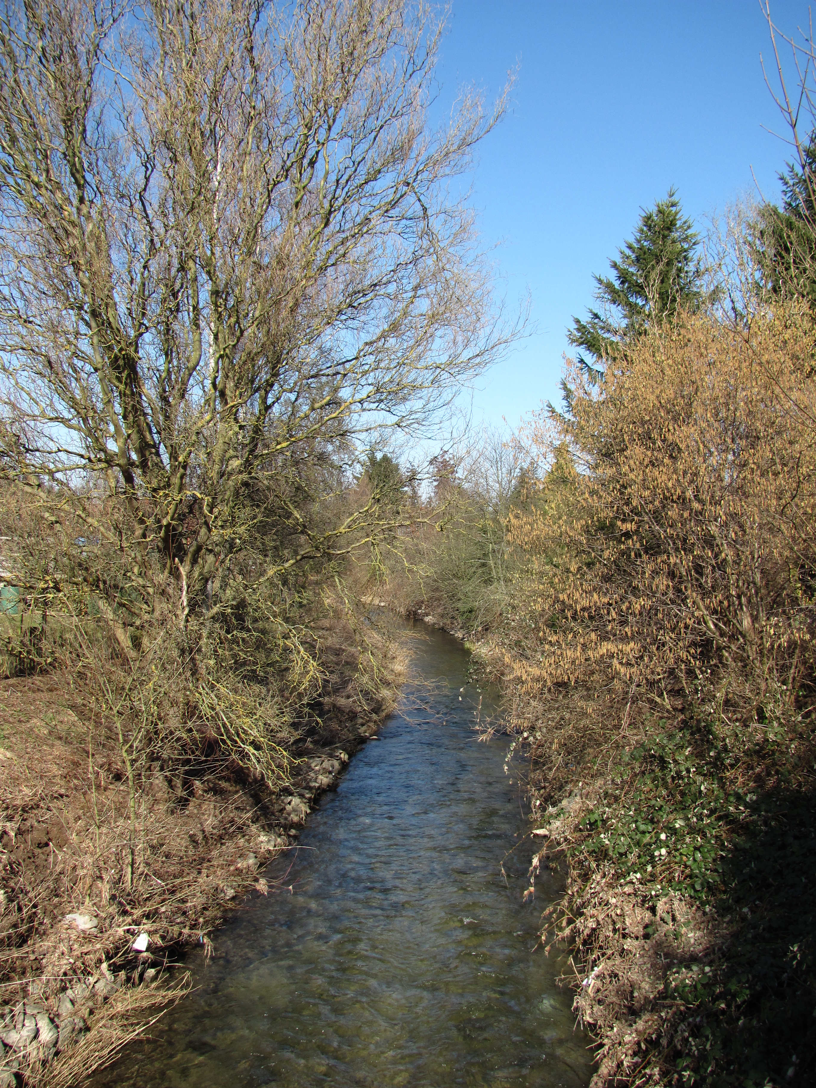 River Lamme in Bad Salzdetfurth-Wesseln, Lower Saxony, Germany